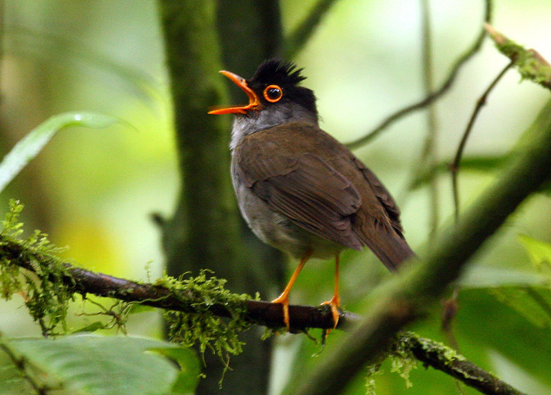 Black-headed Nightingale-thrush (Catharus mexicanus) at Quebrada Gonzalez Station, Braulio Carillo NP, Costa Rica.